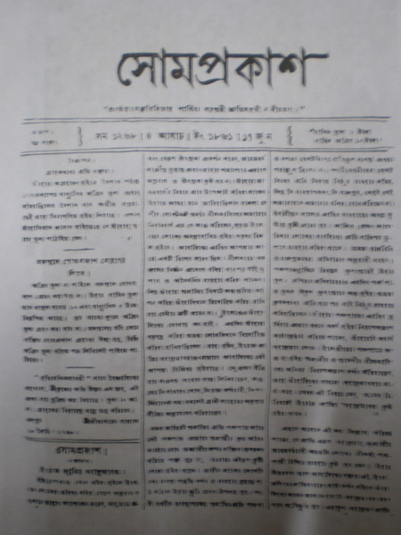 front page of somprokash